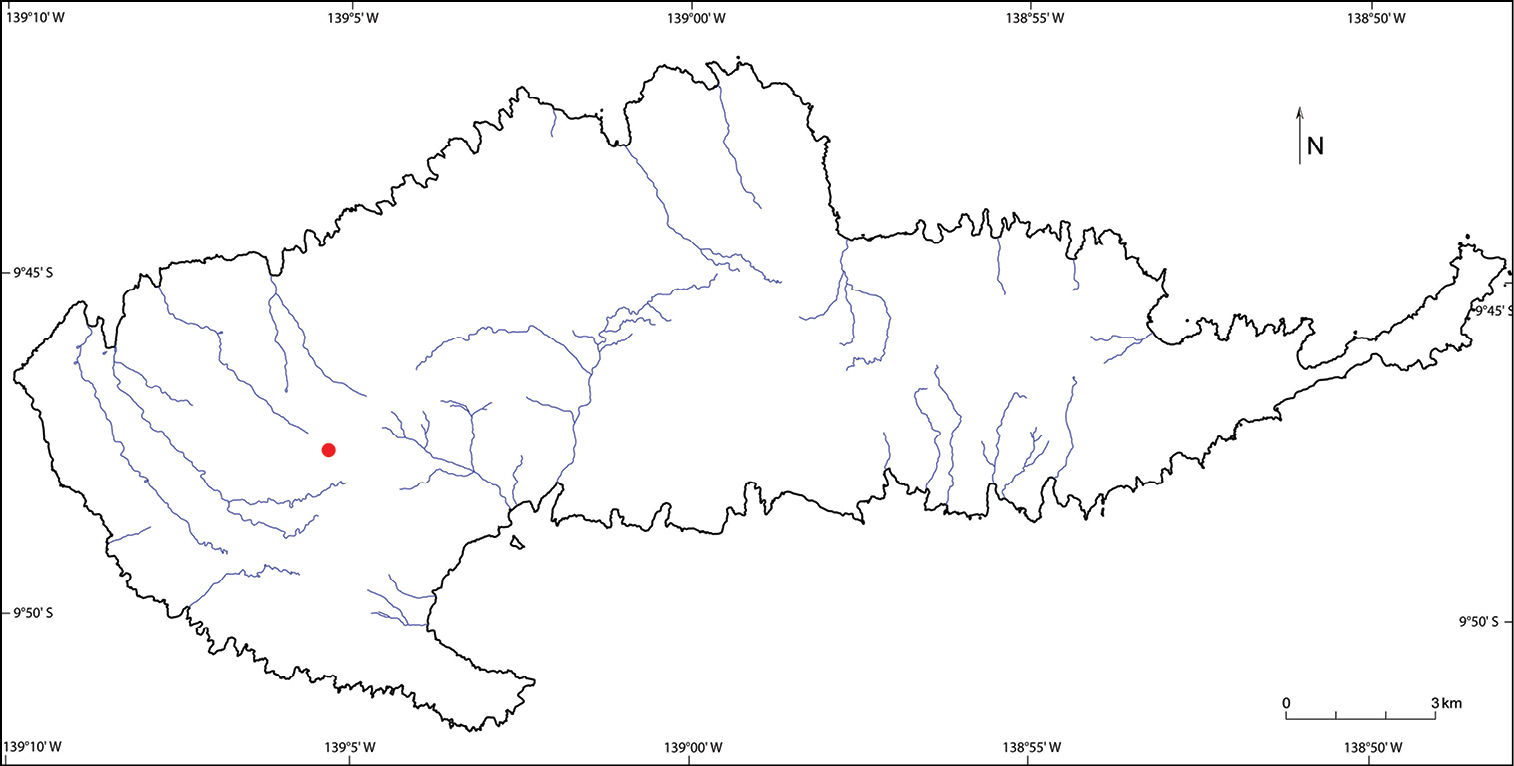 Distribution map of Meryta pastoralis F. Tronchet & Lowry on Hiva Oa Island in the Marquesas archipelago (blue lines indicate primary water courses).